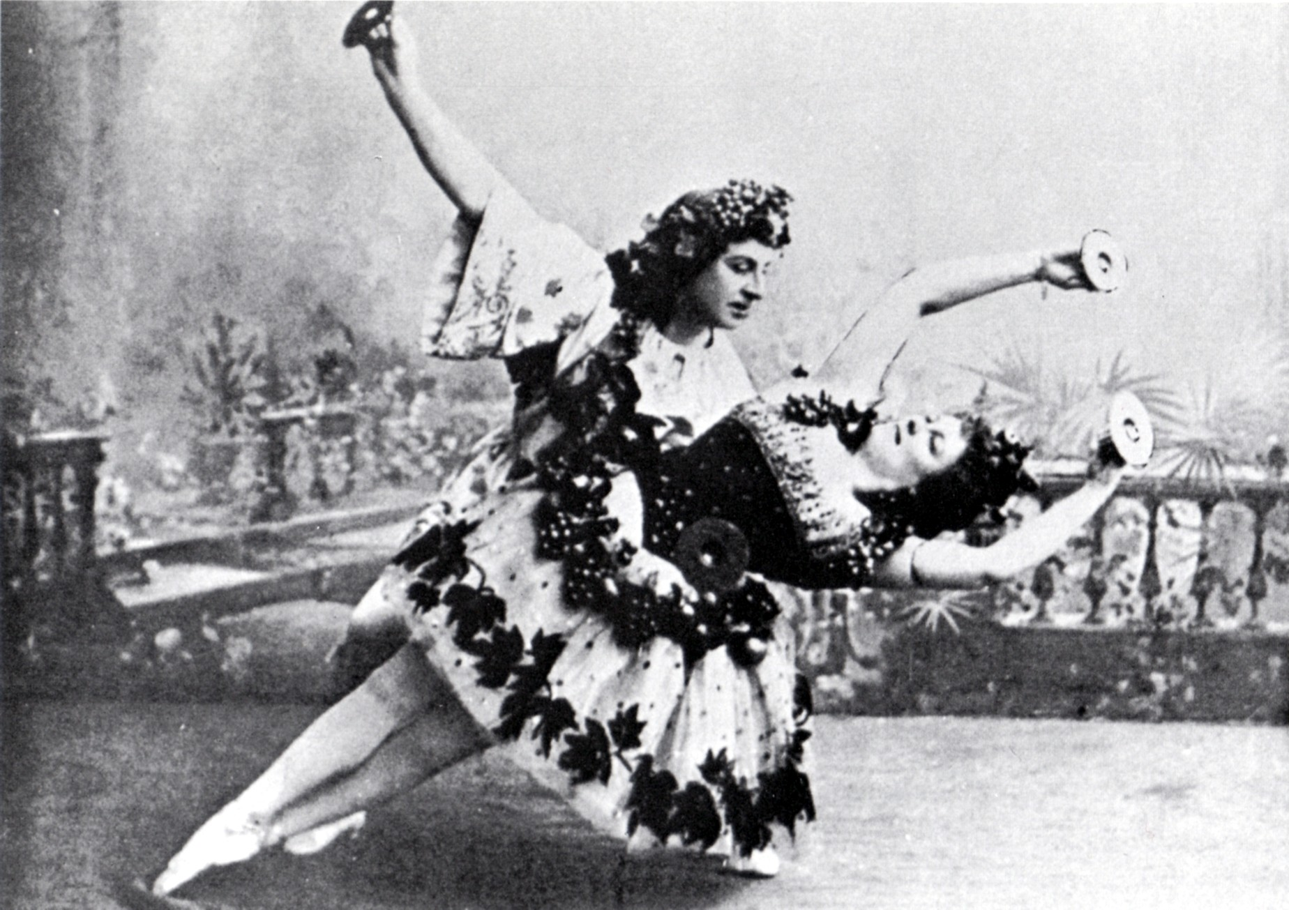 Photo of the dancers Pavel Gerdt (1844-1917) and Marie Petipa (1857-1930) in the Bacchanale from Marius Petipa and Alexander Glazunov's ballet Les Saisons.